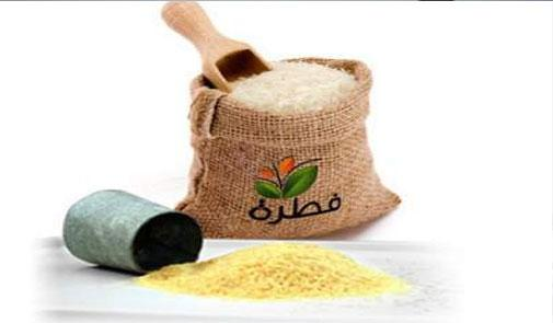 زكاة الفطر